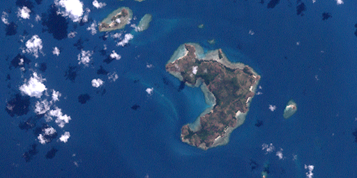 Mount Adolphus Island, Torres Strait Islands, Queensland, Australia. The Island northwest, upper left, is Lacey Island